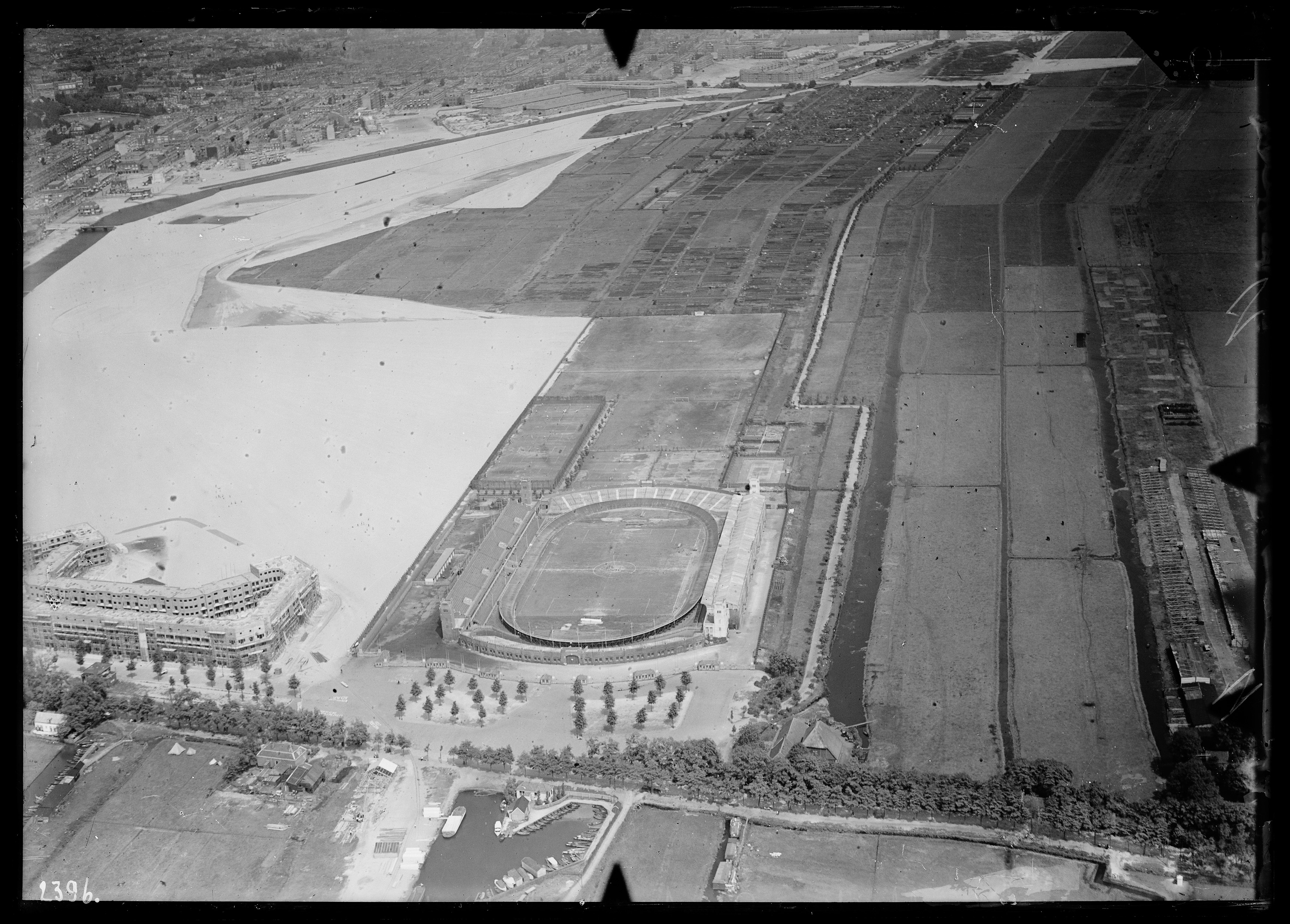 Aerial photograph of Amsterdam, The Netherlands